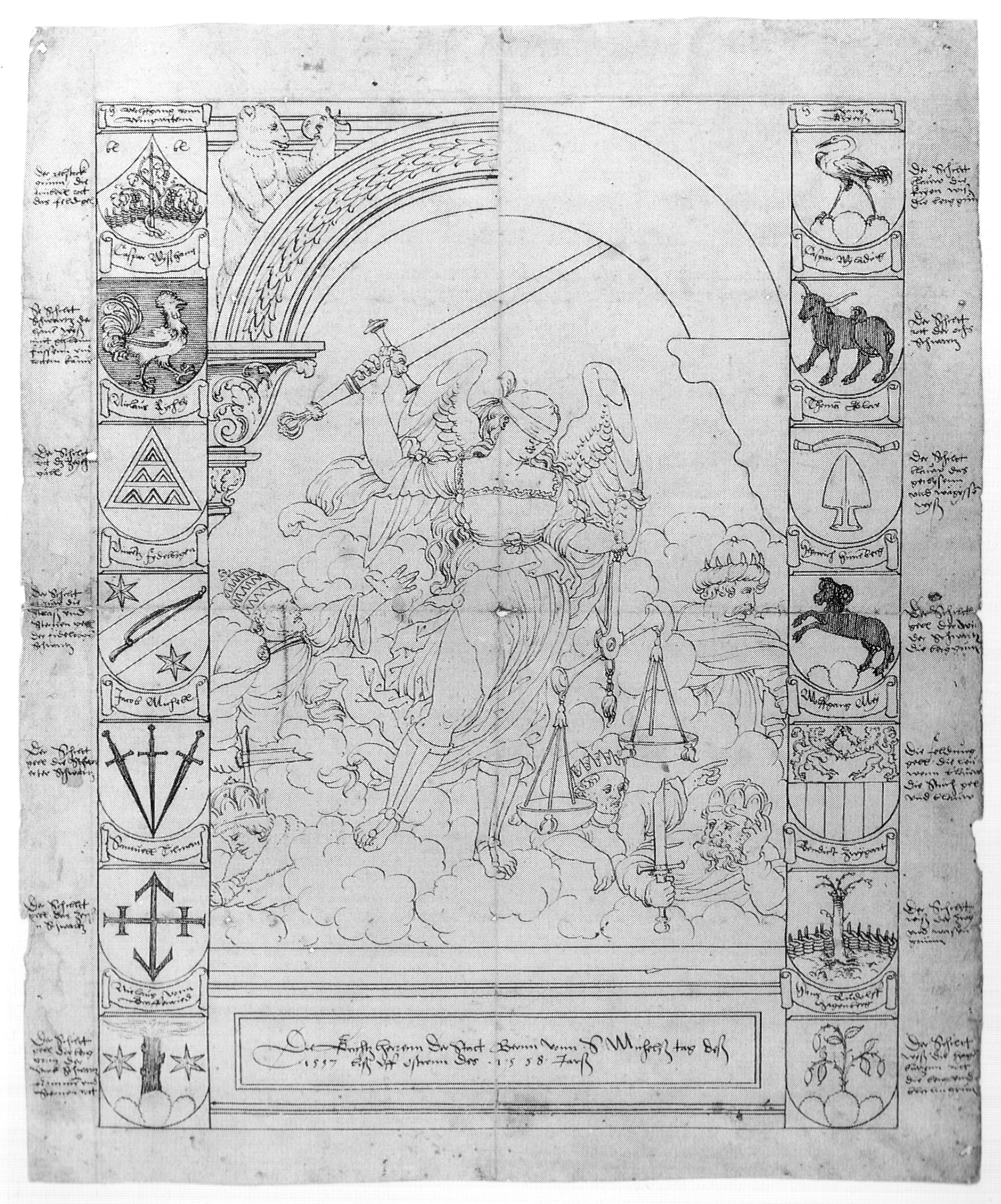 Divine Justice. Drawing for a glass window with the coats of arms of the Law Lords of the Republic of Berne, 16th century.